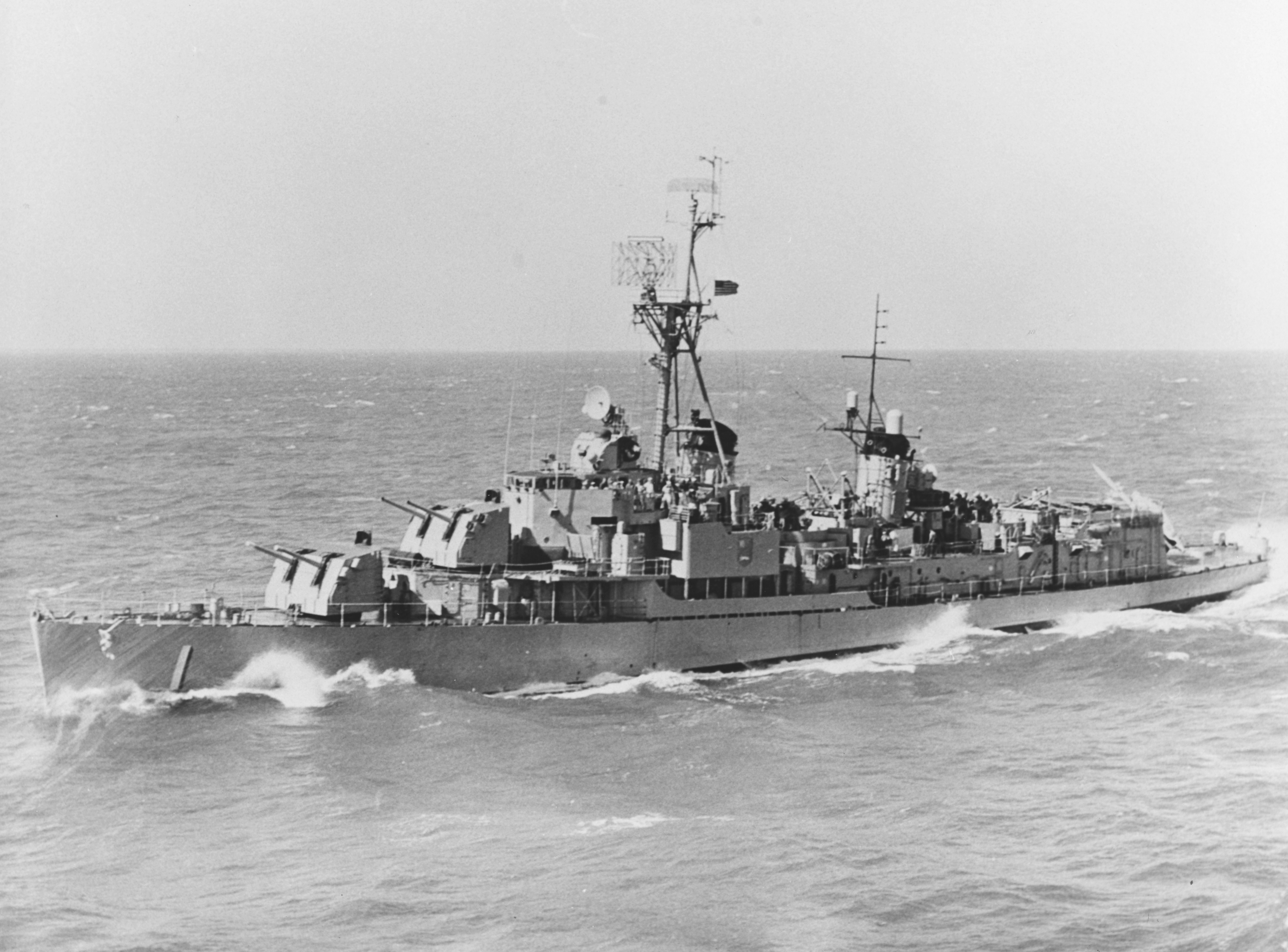 The U.S. Navy guided missile destroyer USS Gyatt (DDG-1) underway at sea, circa the late 1950s or early 1960s.